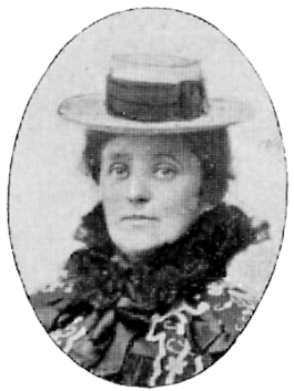 Image scanned from the book "Svenskt Porträttgalleri XX - Arkitekter, Bildhuggare, Målare m.fl. " ("Swedish Portrait Gallery XX - Architects, Sculptors, Painters, ") published 1901